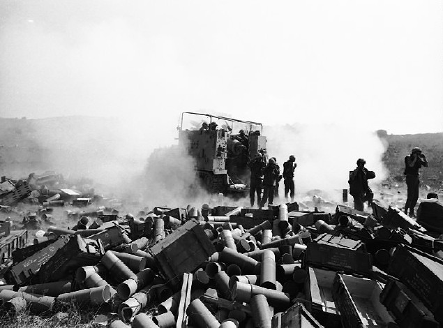 On the Yom Kippur of October 6, 1973, Egypt and Syria launched a coordinated surprise attack on Israel. The Yom Kippur War was launched on the holiest day on the Jewish calendar: The Day of Atonement. Pictured here is a scene from a major battle where Israeli troops fought off Syrian soldiers in the Golan Heights, the area was later named the Valley of Tears. Photo: IDF photo archives.